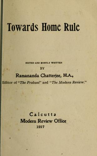 Scanned image of the front cover of Towards Home Rule, written and edited by Ramananda Chatterjee (1865 - 1943) in 1917.